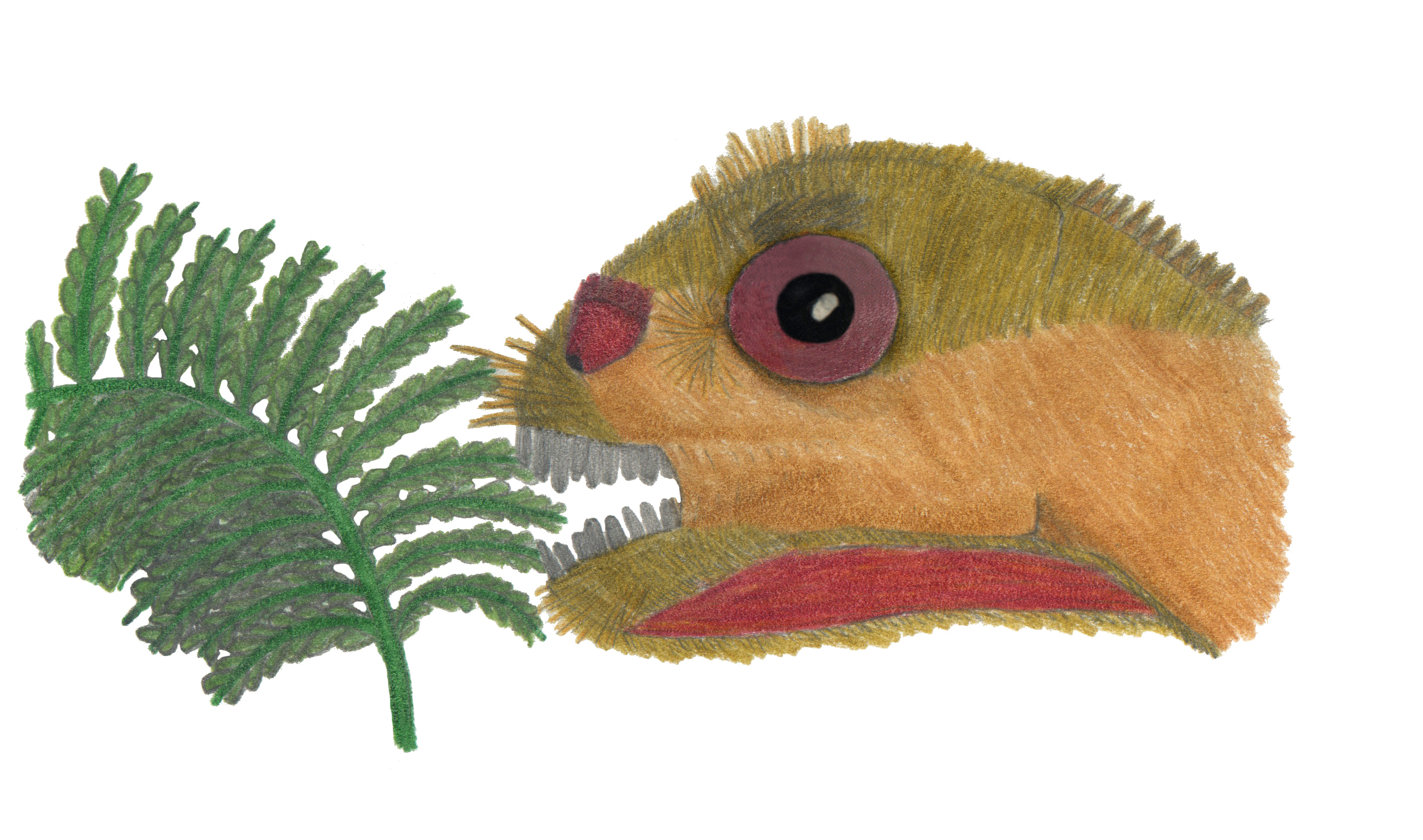 Life restoration of a juvenile Mussaurus patagonicus eating a Dicroidium fern. Mussaurus (mouse lizard) was named for the diminutive size of the holotype specimen, now known to represent a juvenile individual. This drawing gives the individual highly speculative integument, a gular pouch with feathers, an inflatable nostril, and various feathers.